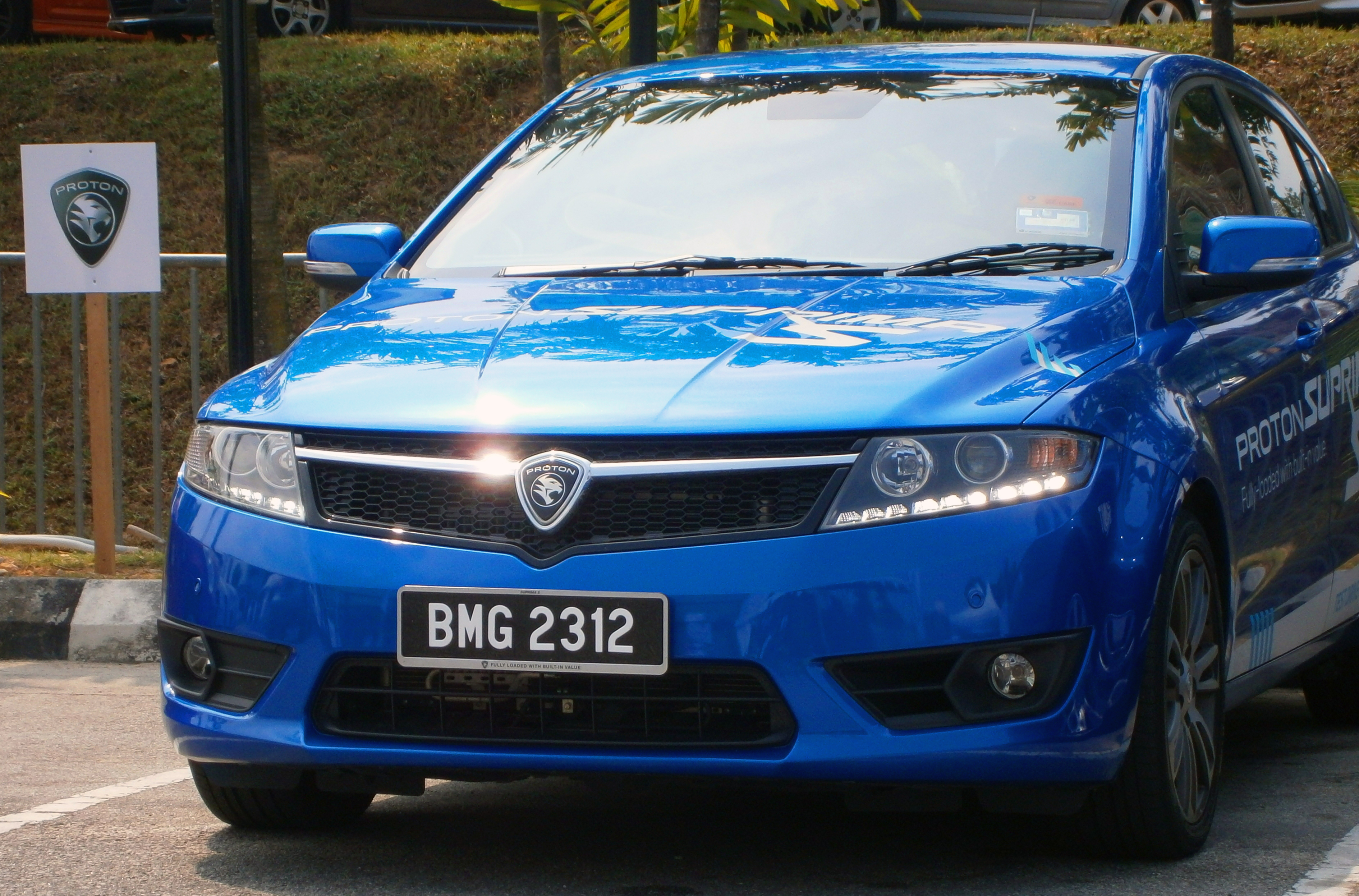 2013 Proton Suprima S Premium (Test Drive Car) in Glenmarie, Malaysia. Colour : Atlantic Blue Designed & Assembled in Malaysia